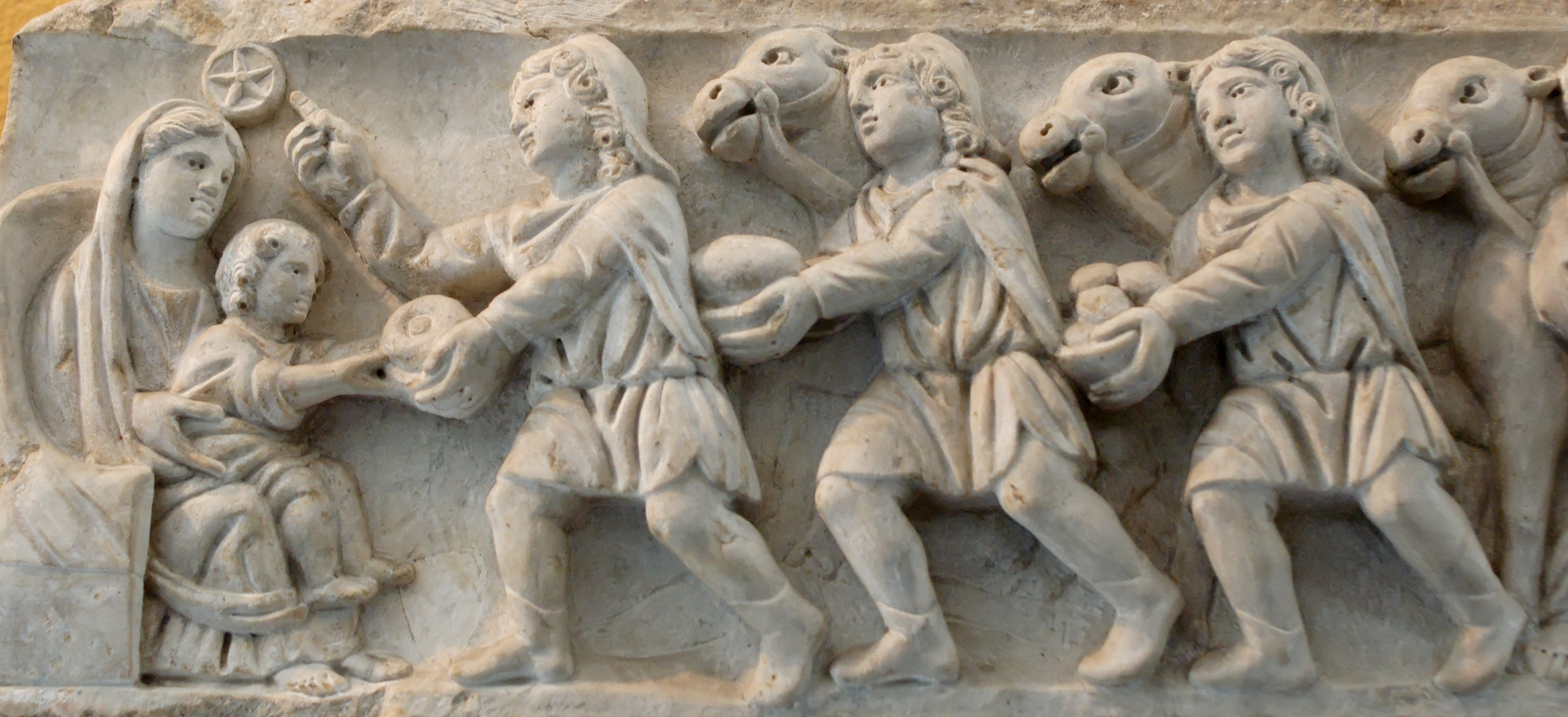 Adoration of the Magi. Panel from a Roman sarcophagus, 4th century CE. From the cemetary of St. Agnes in Rome.